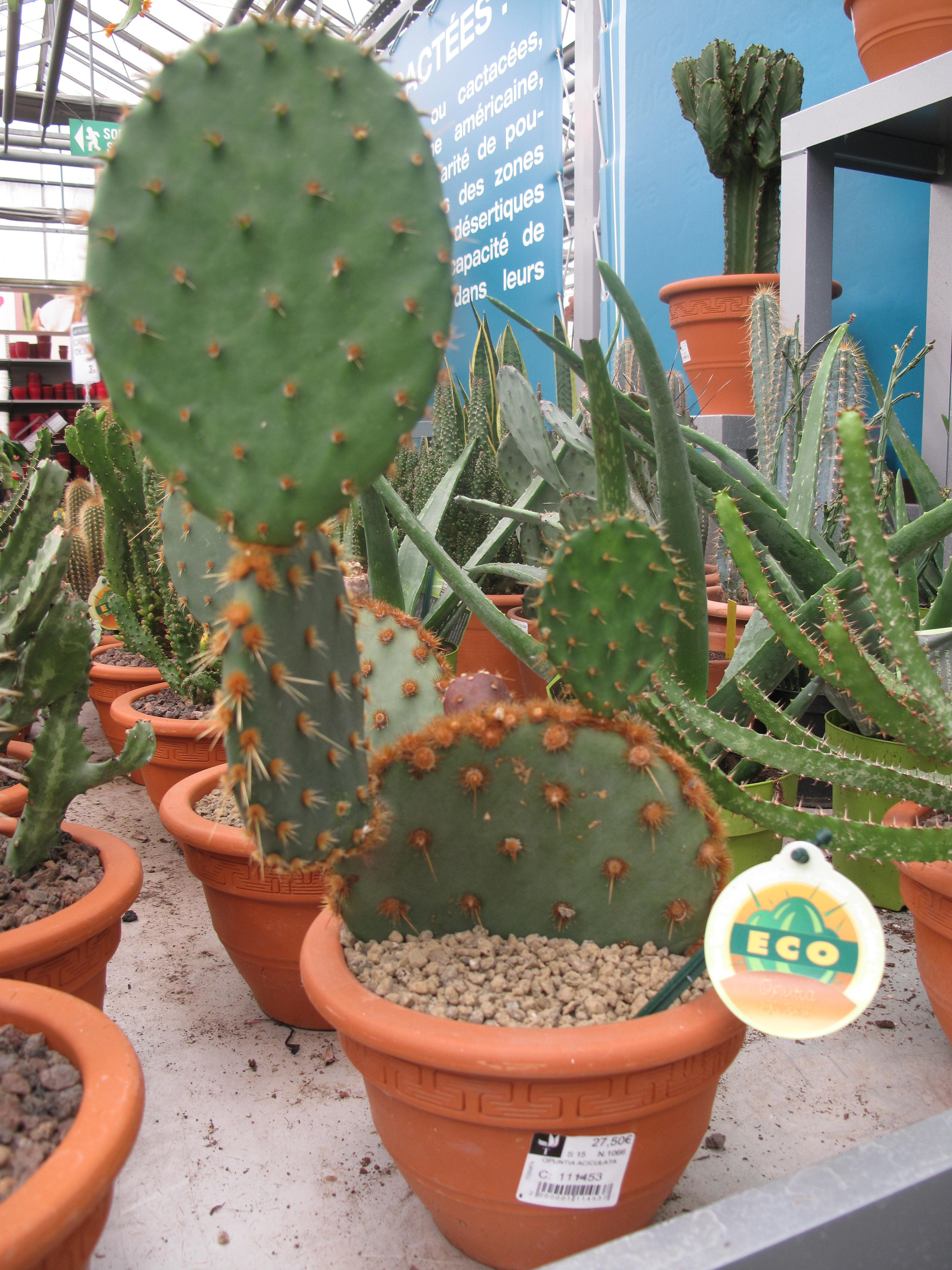 Opuntia aciculata in a garden centre. Identified by its commercial botanic label.